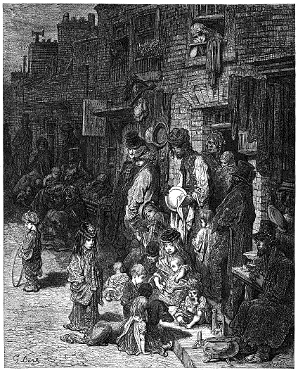 Wintworth street, Whitecapel, from «London: A Pilgrimage» (1872)